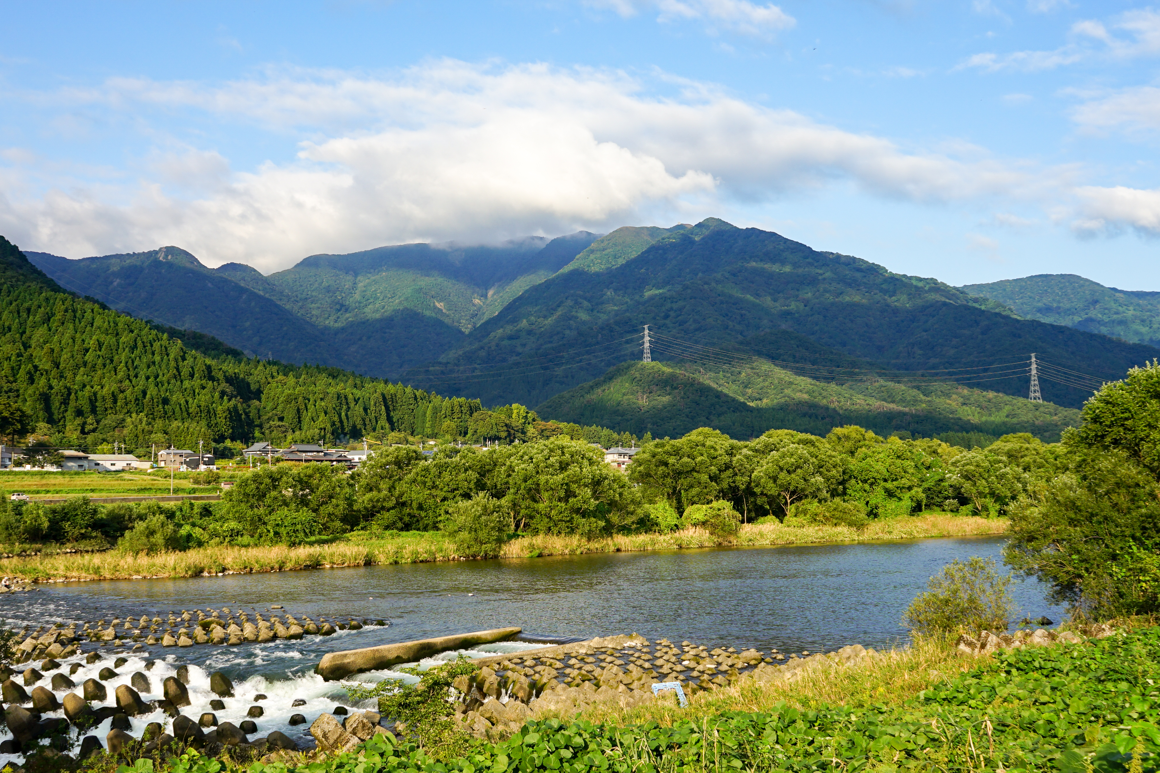 Mt. Johoji (view from Hanadani, Eiheiji-cho), Fukui Pref., Japan